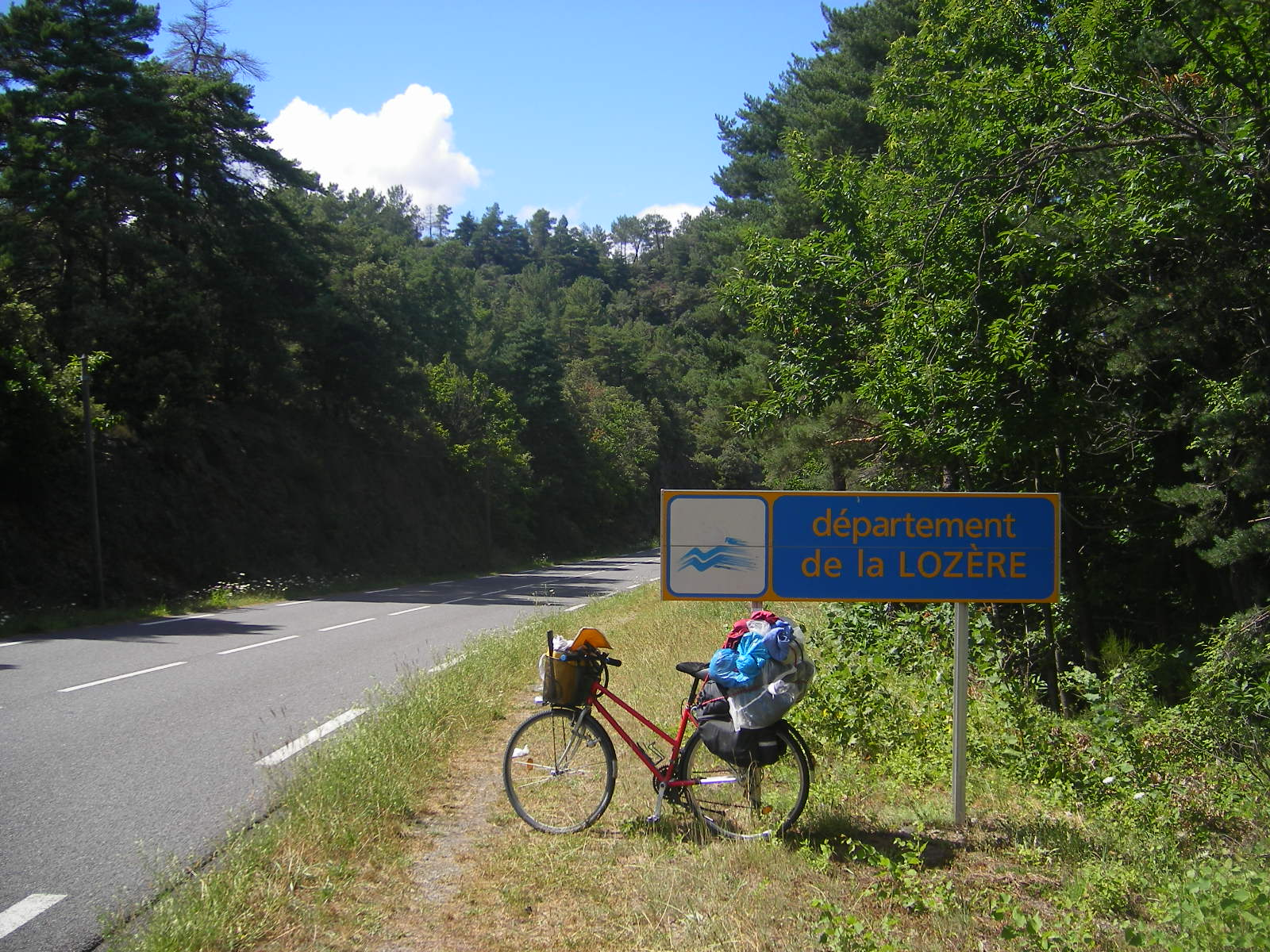 Border sign in Col Saint-Pierre (Corniche des Cévennes) - wrong name